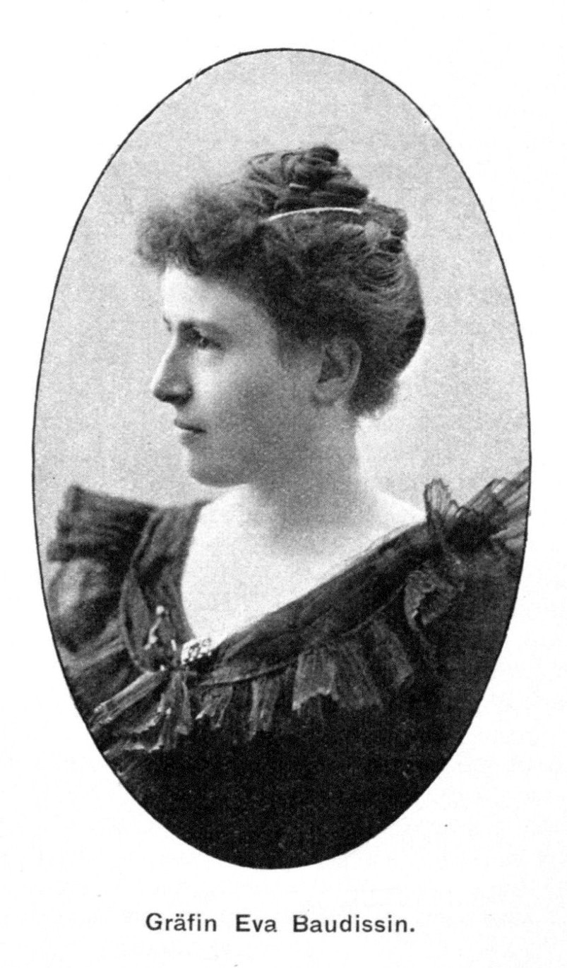 Portrait of Eva von Baudissin (1869-1943), German writer.